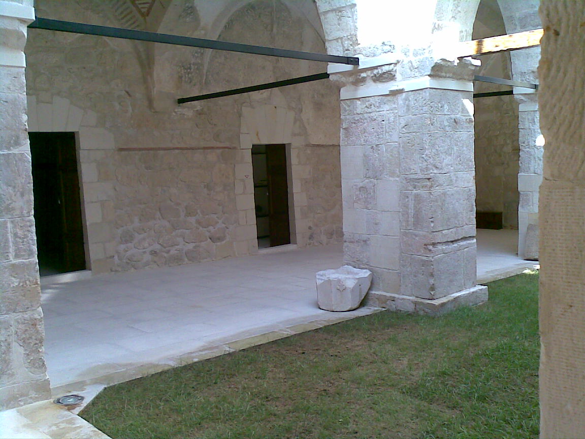 Зинджирли-медресе